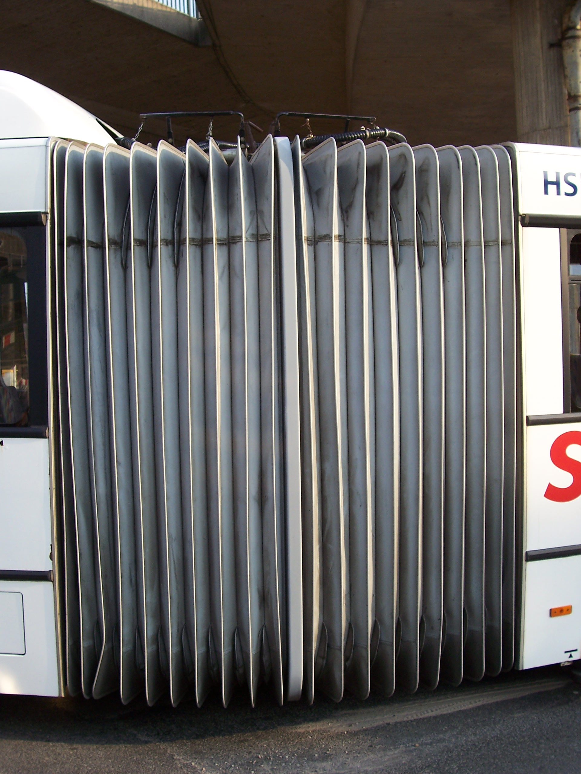 The bellows of a articulated bus (Mercedes-Benz O 405 GN2)